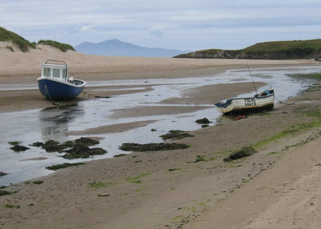 Boats on the Afon Ffraw and the Aberffraw sands In the far distance, on the Llŷn Peninsula, the higher peak is Yr Eifl and the lower one, to the left, is the Tre'r Ceiri hillfort.